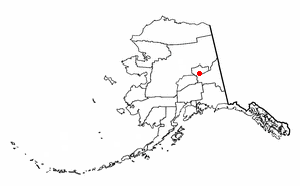 Adapted from Wikipedia's AK borough maps by Seth Ilys.